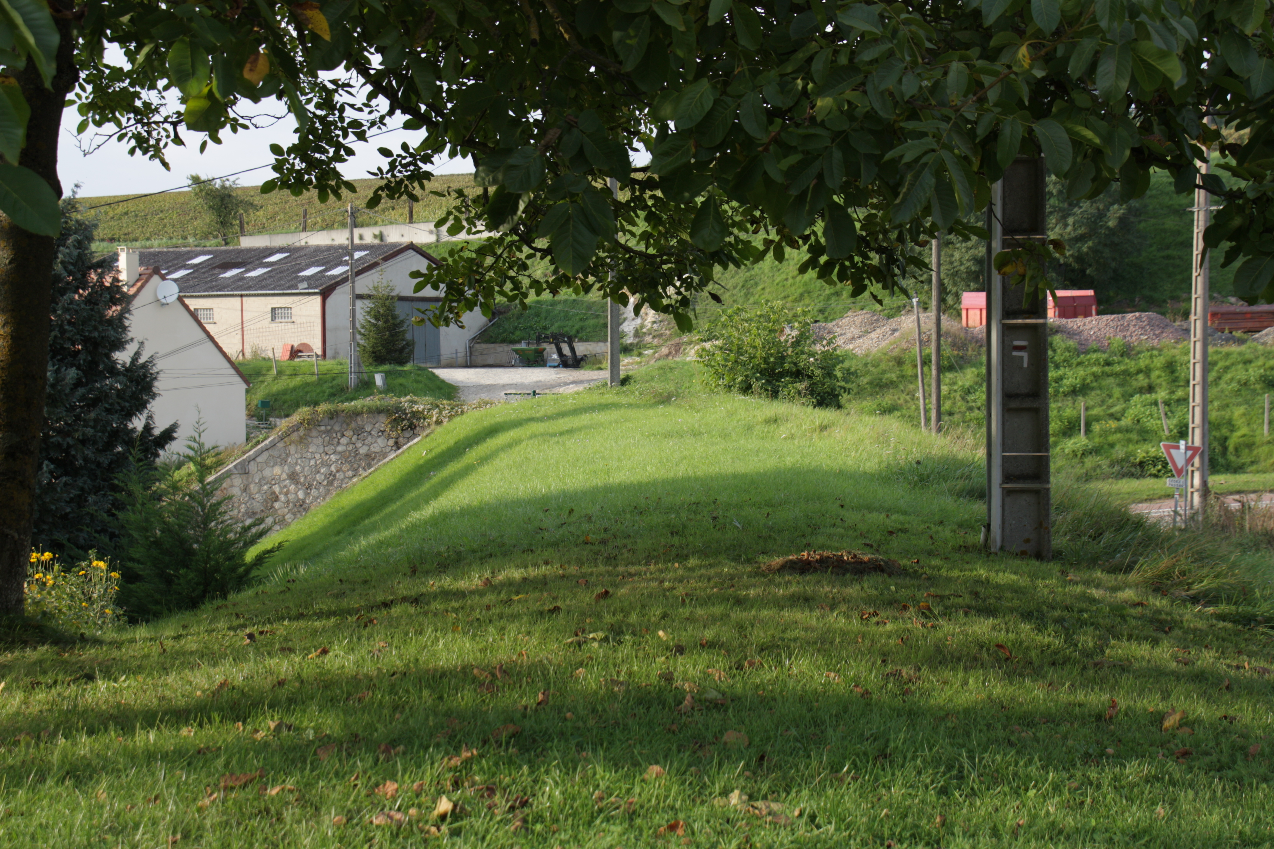 Former platform of Chemins de fer du Sud de l'Aisne in Vaux, Aisne, France.